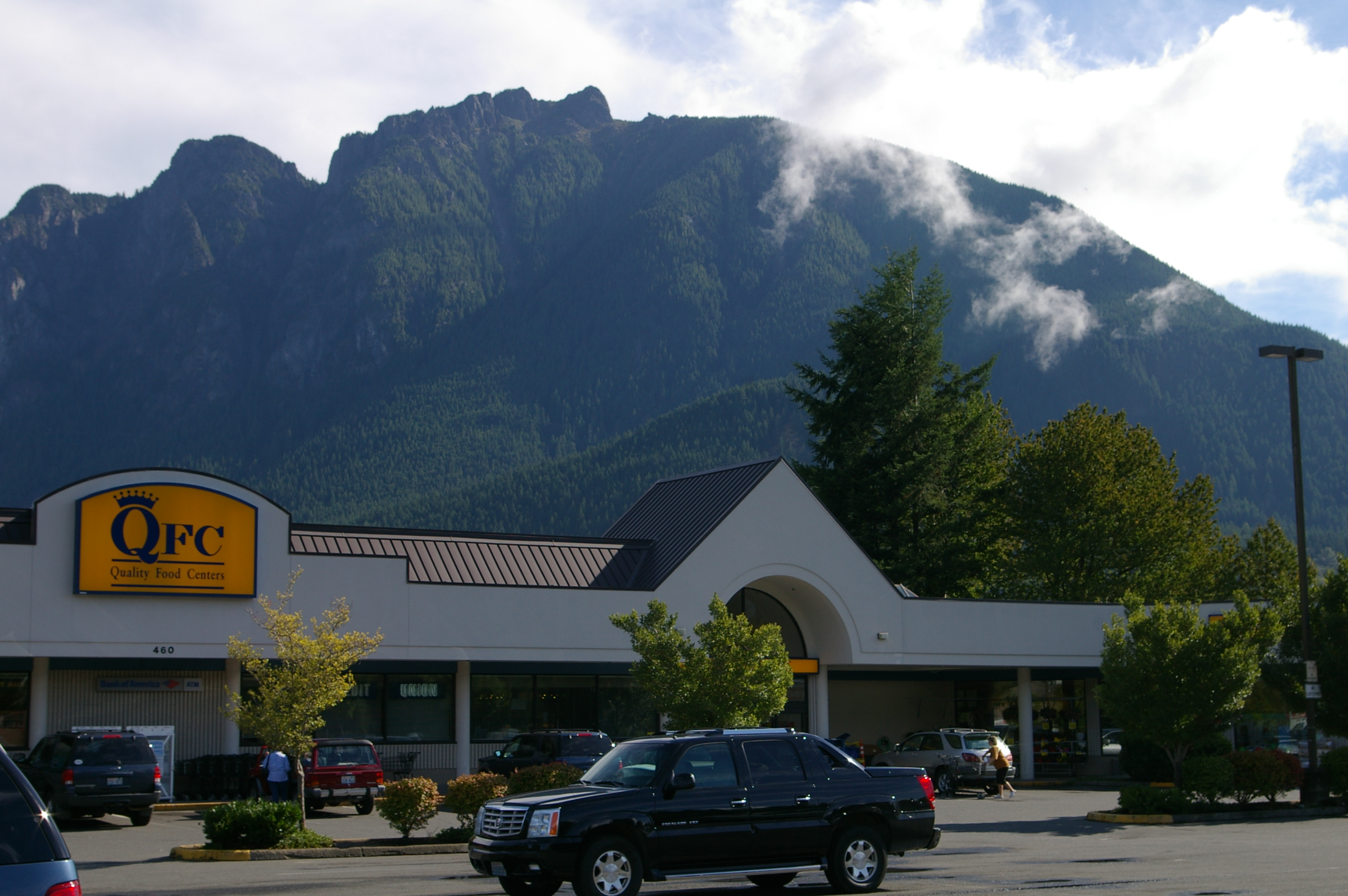 Mount Si behind QFC grocery store in North Bend, WA. Little Si is visible just above the peak over the store's entrance. (cc) 2005 Konrad Roeder